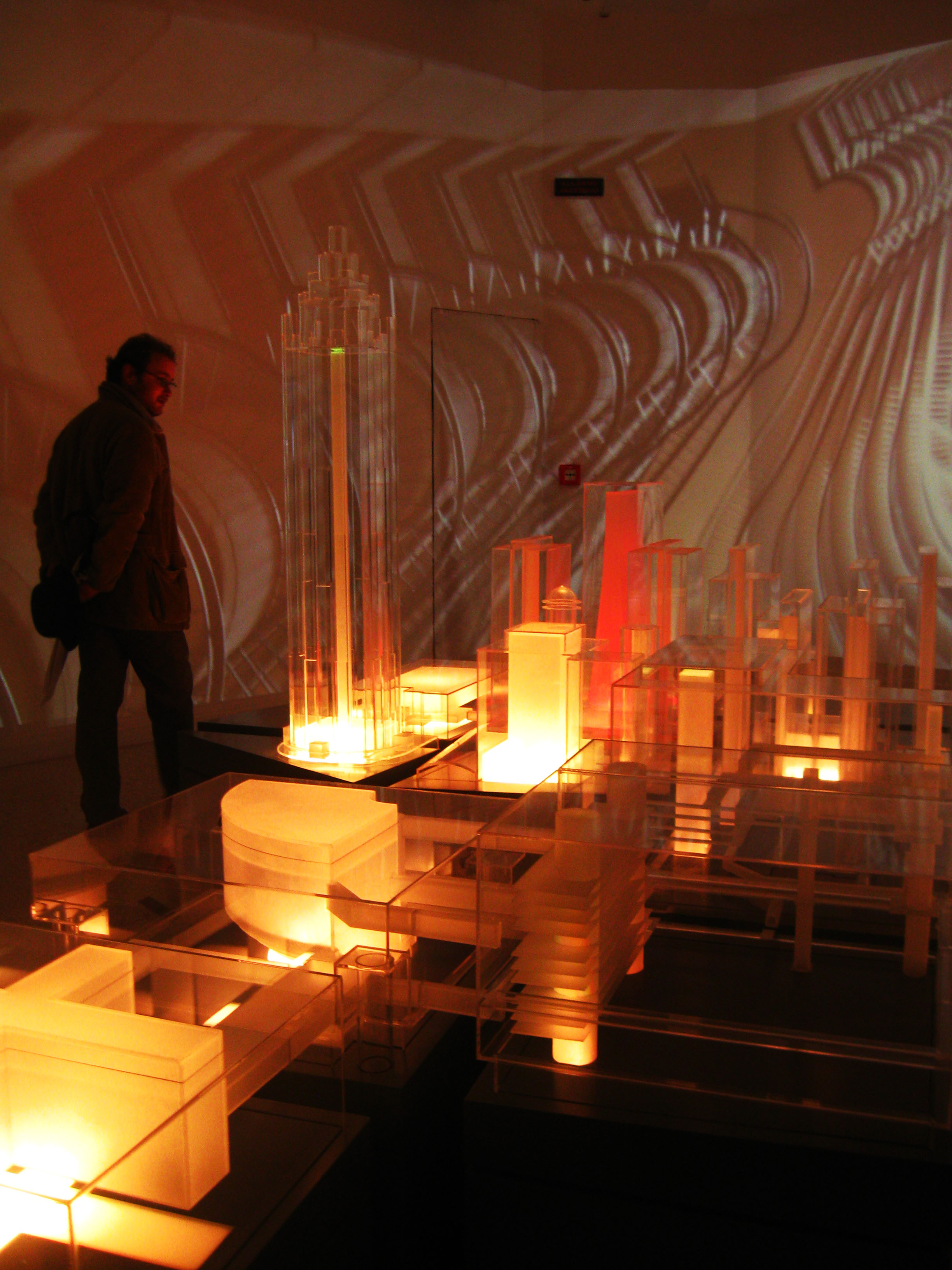 13th Venice Architecture Biennale Common Ground